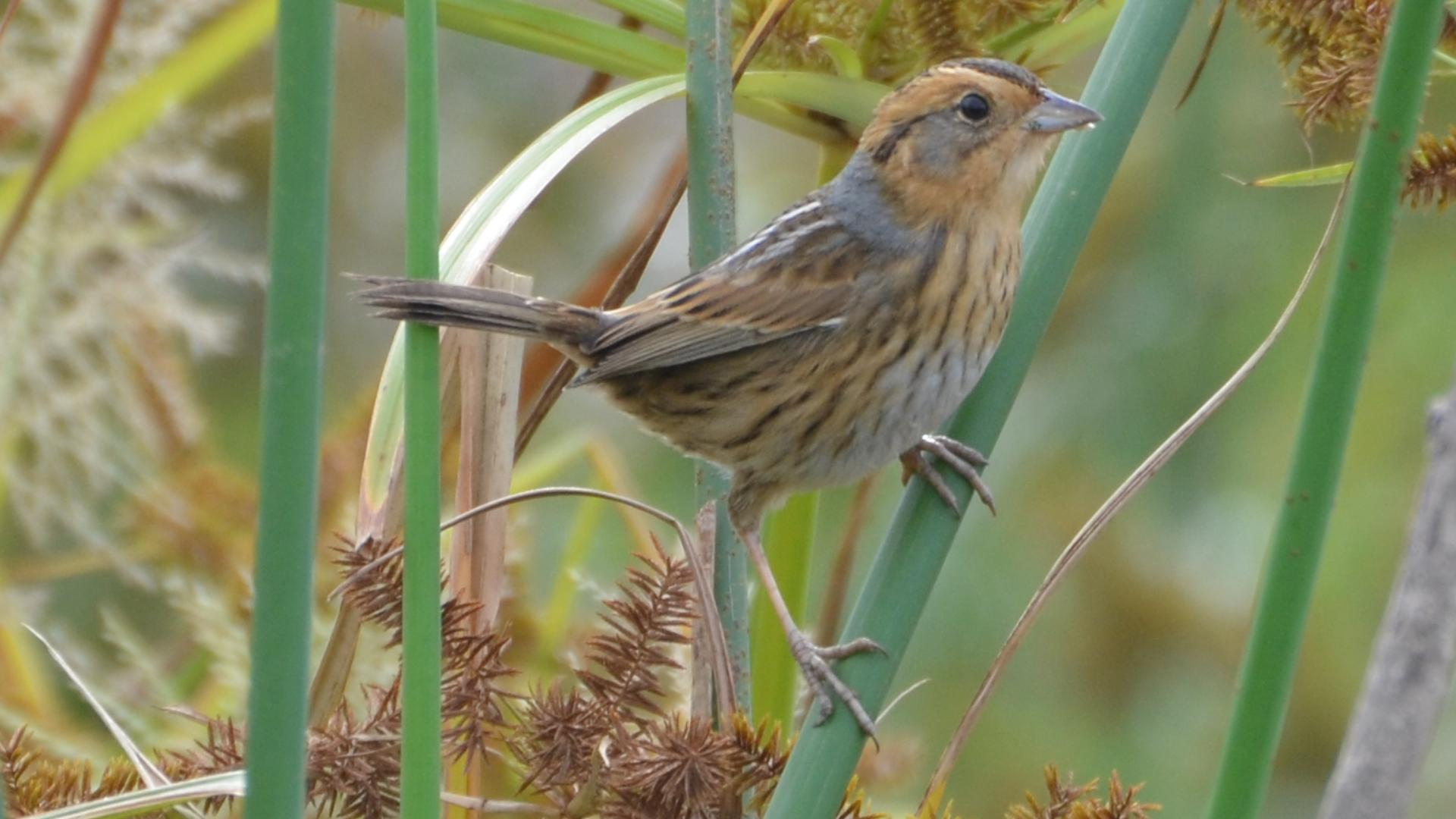 A Nelson's Sparrow at Riverlands Migratory Bird Sanctuary, Missouri, USA.